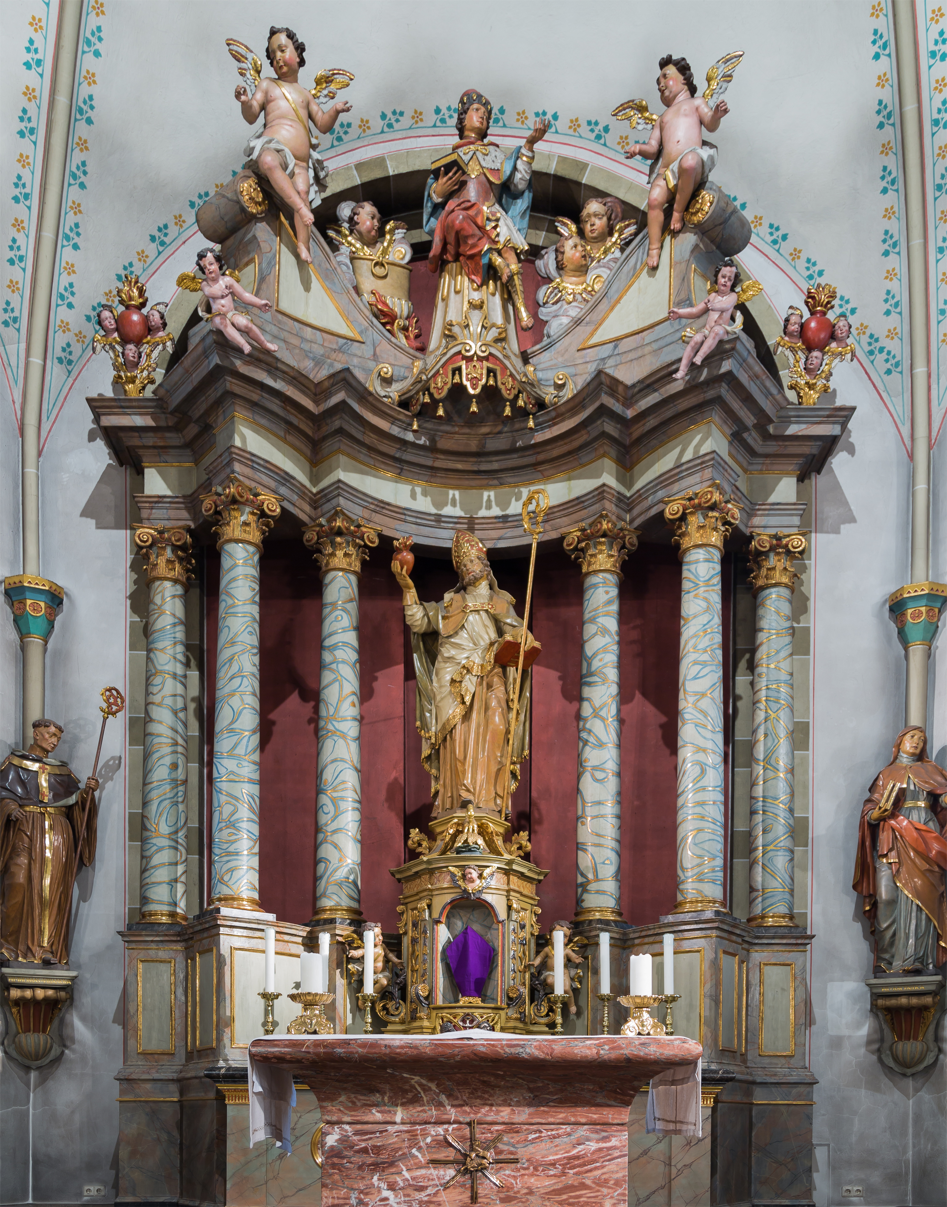 Rösrath, Listed monument number 42, Hauptstrasse 62: Pfarrkirche St. Nikolaus von Tolentino - High Altar, dedicated to St. Antonius This is a photograph of an architectural monument.